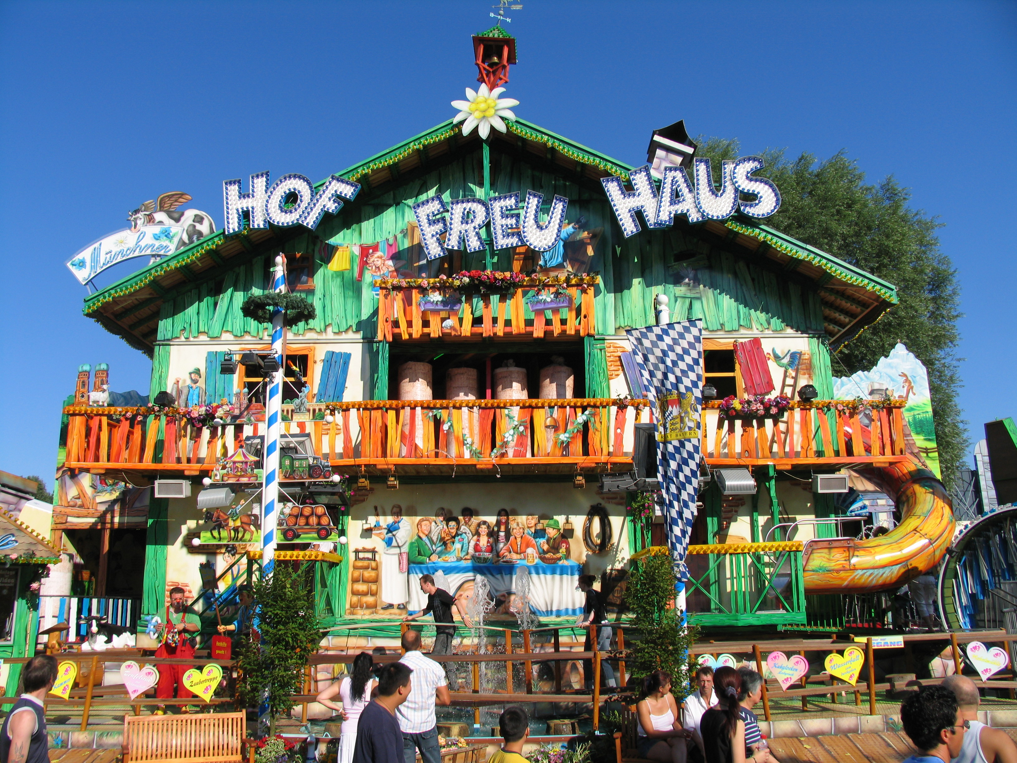 Funhouse Hof Freu Haus at Größte Kirmes am Rhein in Düsseldorf